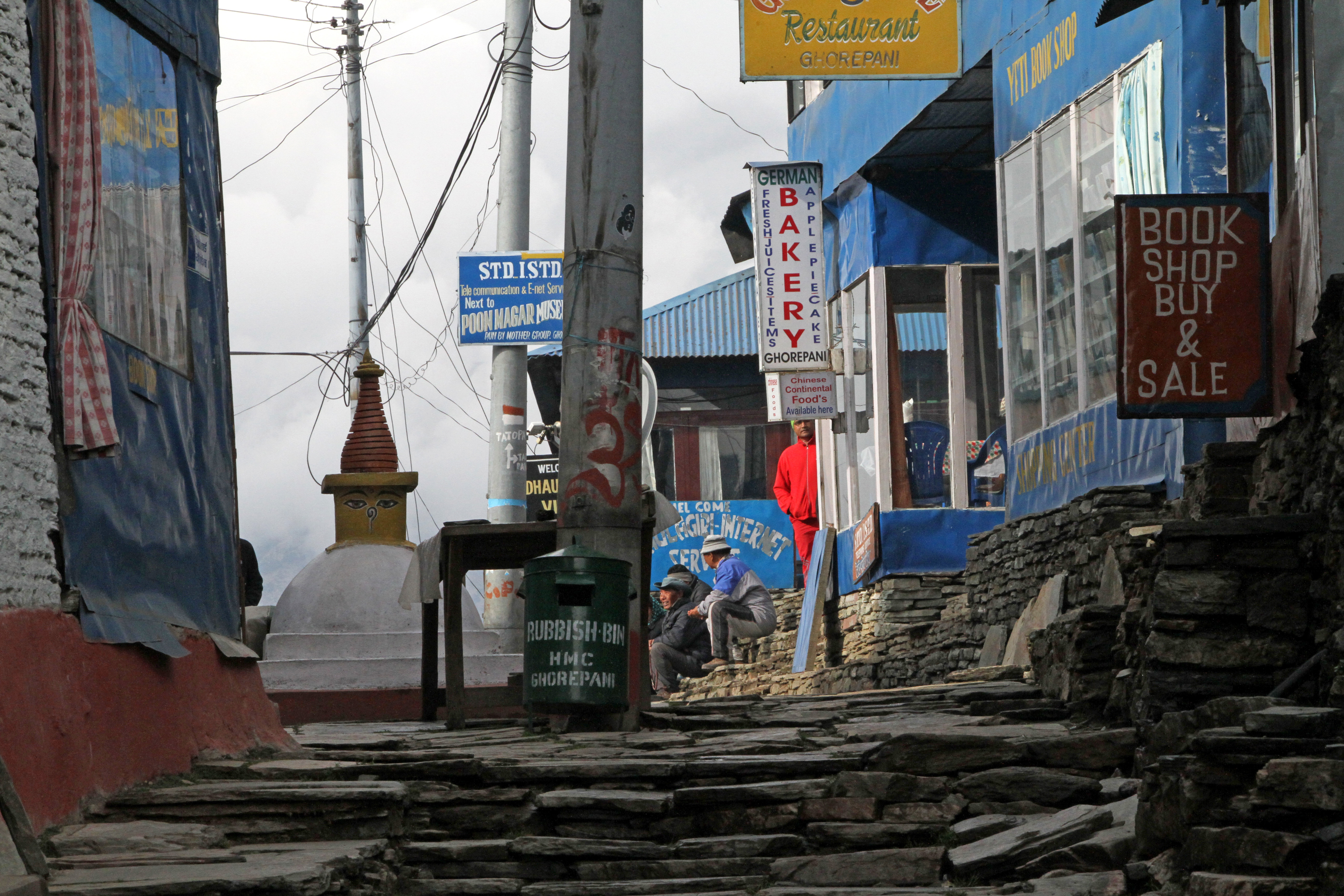 Ghorepani village in Nepal